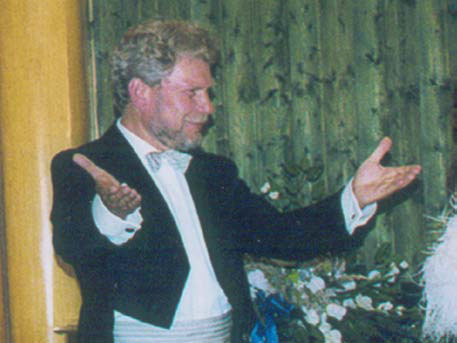 Johannes Jokel performs on Vienna concert